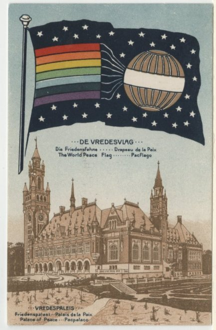 An early reproduction of the World Peace Flag. Printed by Koopman, W.A.F., Den Haag